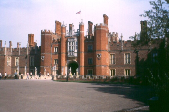 Hampton Court. The front elevation of the Tudor Palace.